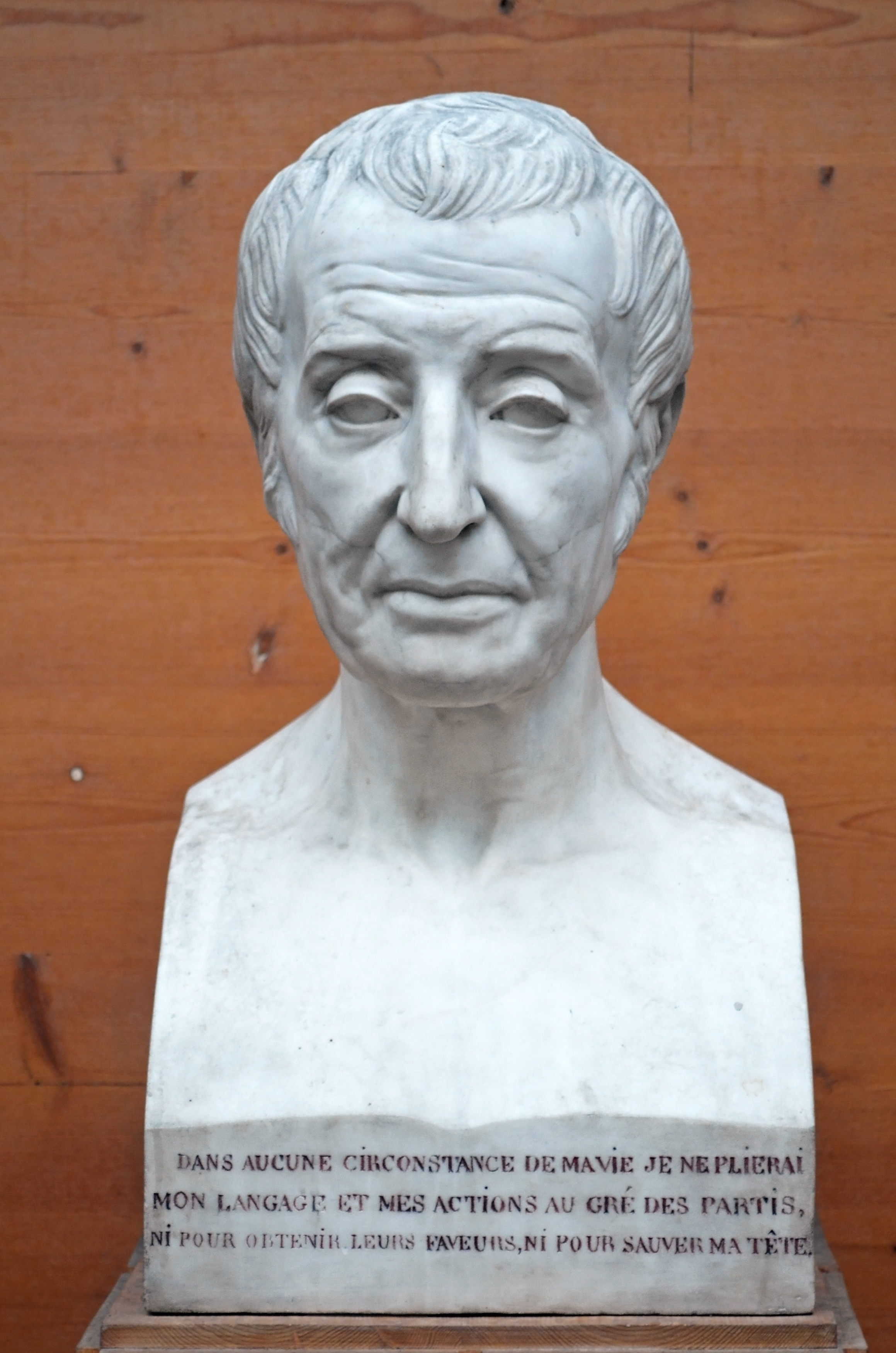 Bust of Louis Marie de La Révellière-Lépeaux by french sculptor David d'Angers. Exhibited in David d'Angers gallery, Angers, France